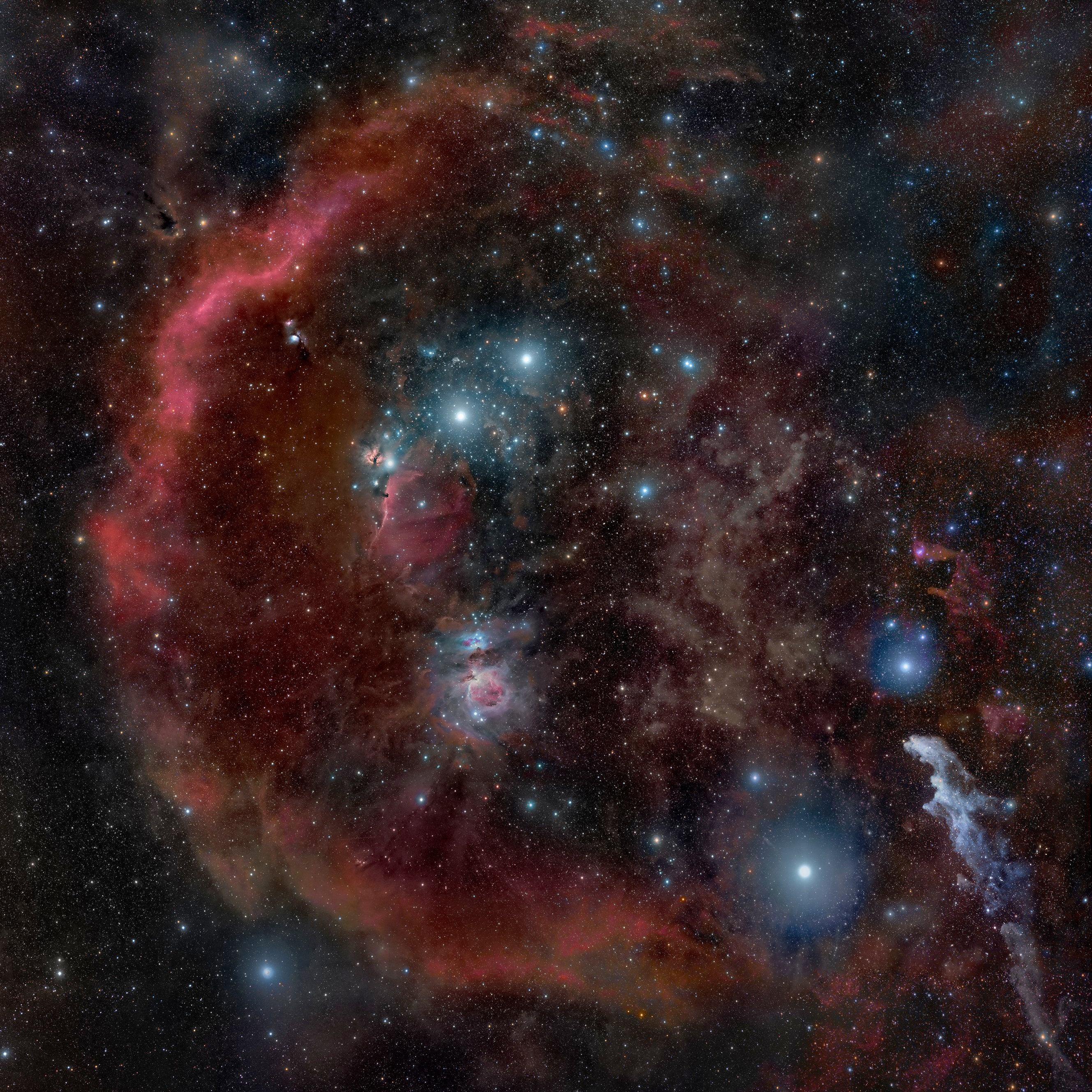 crop of